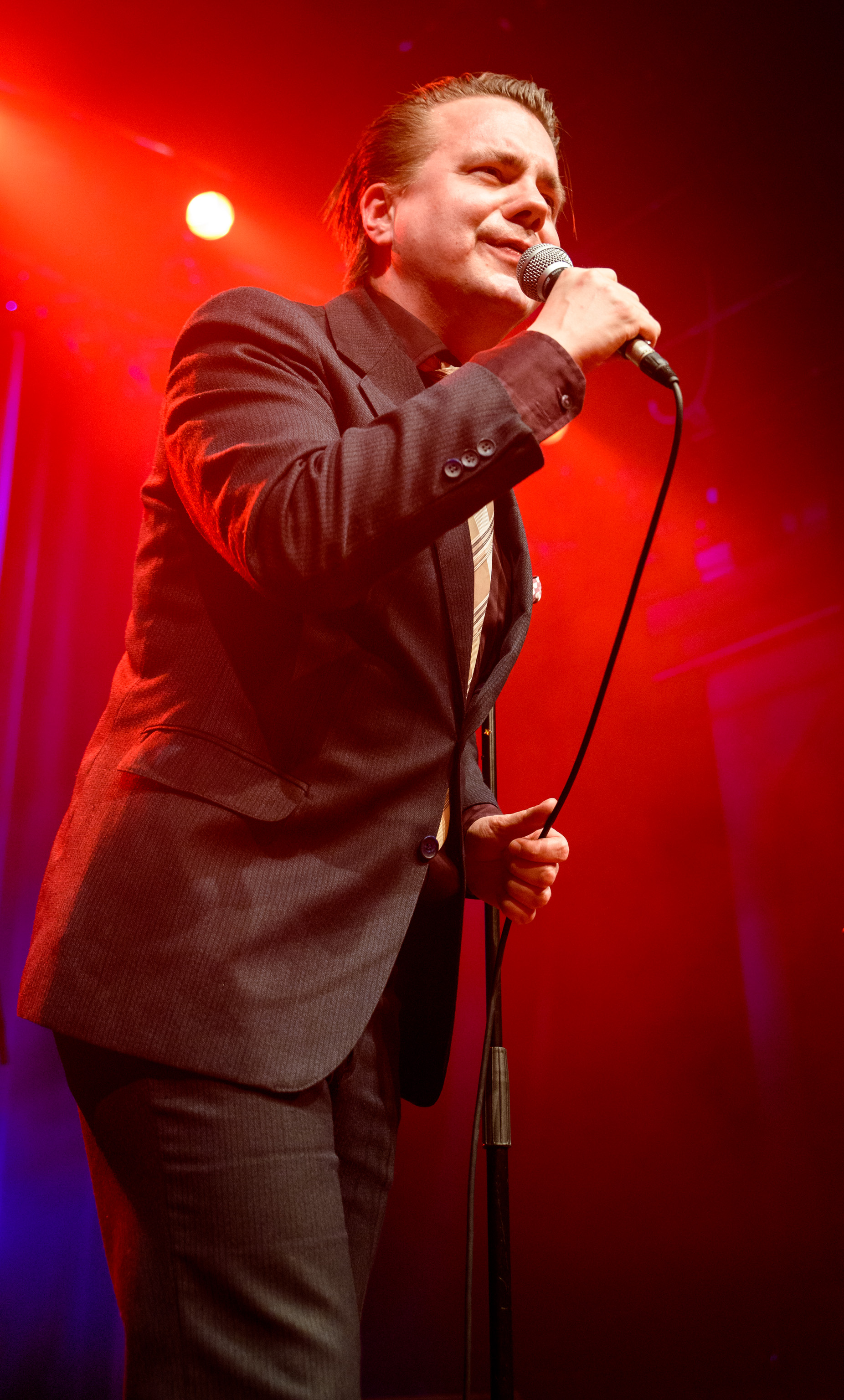 Jaako Laitinen & Väärä Raha in Munich 2015